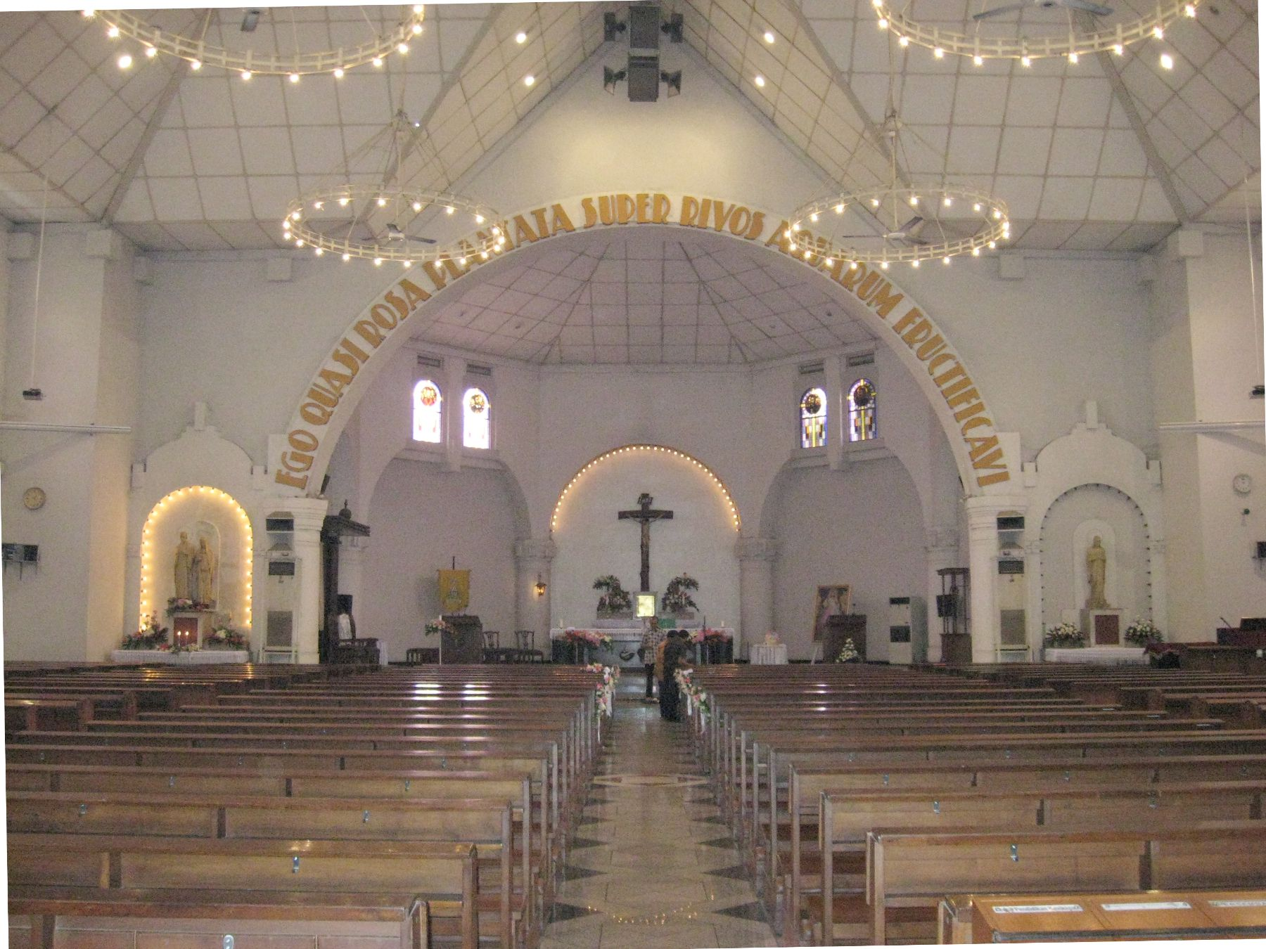 Interior of the Cathedral of the Virgin Mary, Queen of the Holy Rosary in Semarang